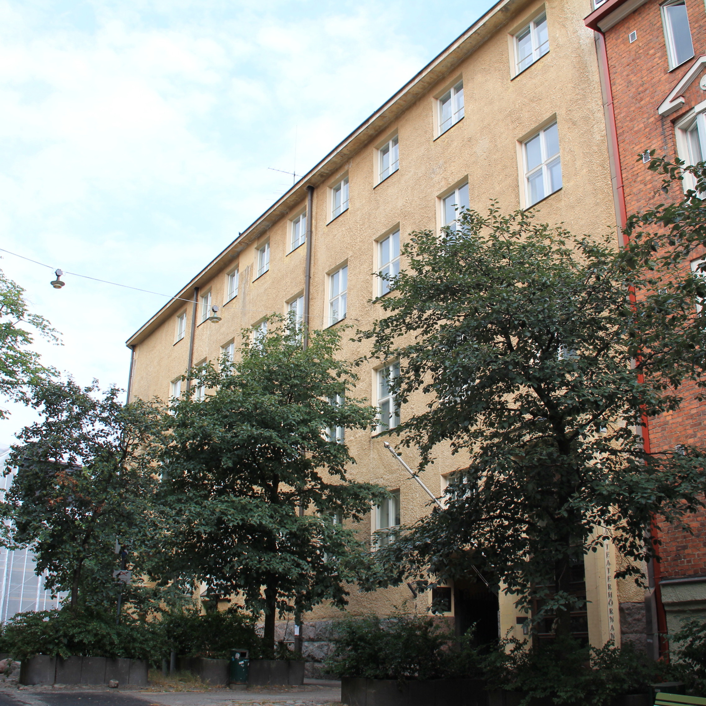 Building Teatterikulma, 33 Meritullinkatu, Helsinki, Finland. - Originally designed by arcitect Bruno Granholm in 1899 as two storeys high. In 1929 two more storeys added and outerior completely changed by architect Toivo and Jussi Paatela. - Facade towards Meritullinkatu. Аҧсшәа: Kiinteistö Teatterikulma, Meritullinkatu 33, Helsinki, Suomi. - Alun perin Kruununhaan linna -nimisen kaksikerroksisen kiinteistön suunnitteli Bruno Granholm vuonna 1899. Vuonna 1929 muutostyö arkkitehtien Toivo ja Jussi Paatela johdolla, jolloin rakennusta korotettiin kahdella kerroskella ja sen koristelu yksinkertasitettiin huomattavasti, muun muassa torni purettiin. - Julkisivu Meritullinkadulle.